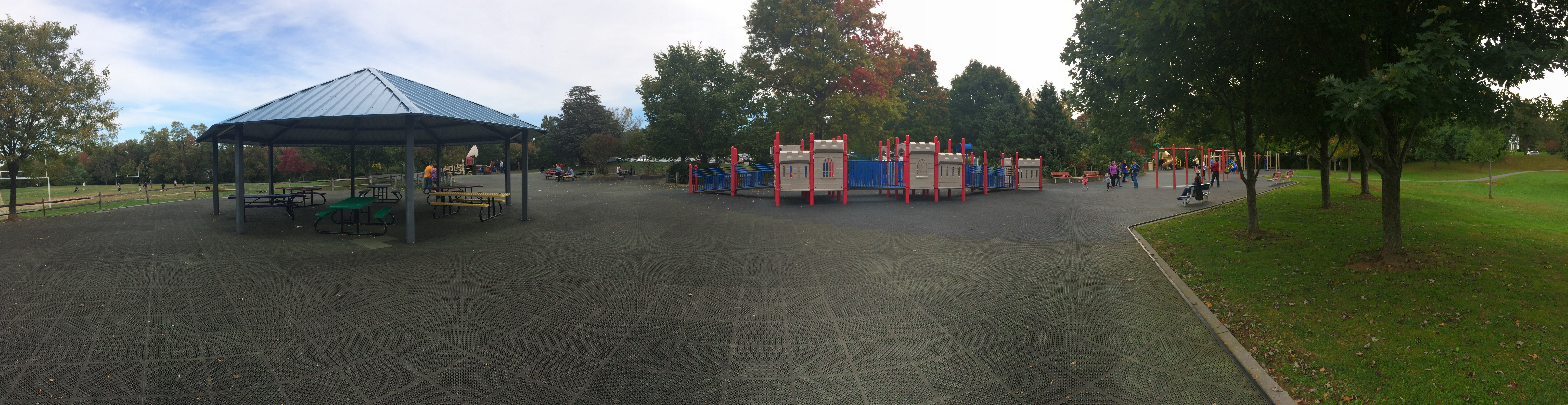 Panoramic view of Hadley's Park (Potomac, Maryland)